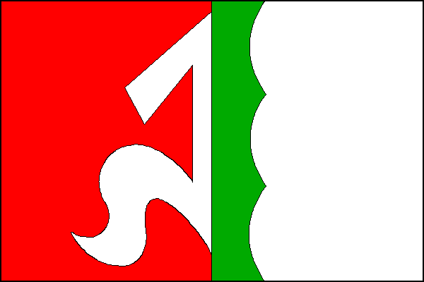 Municipal flag of Nový Jičín town, Czech Republic.